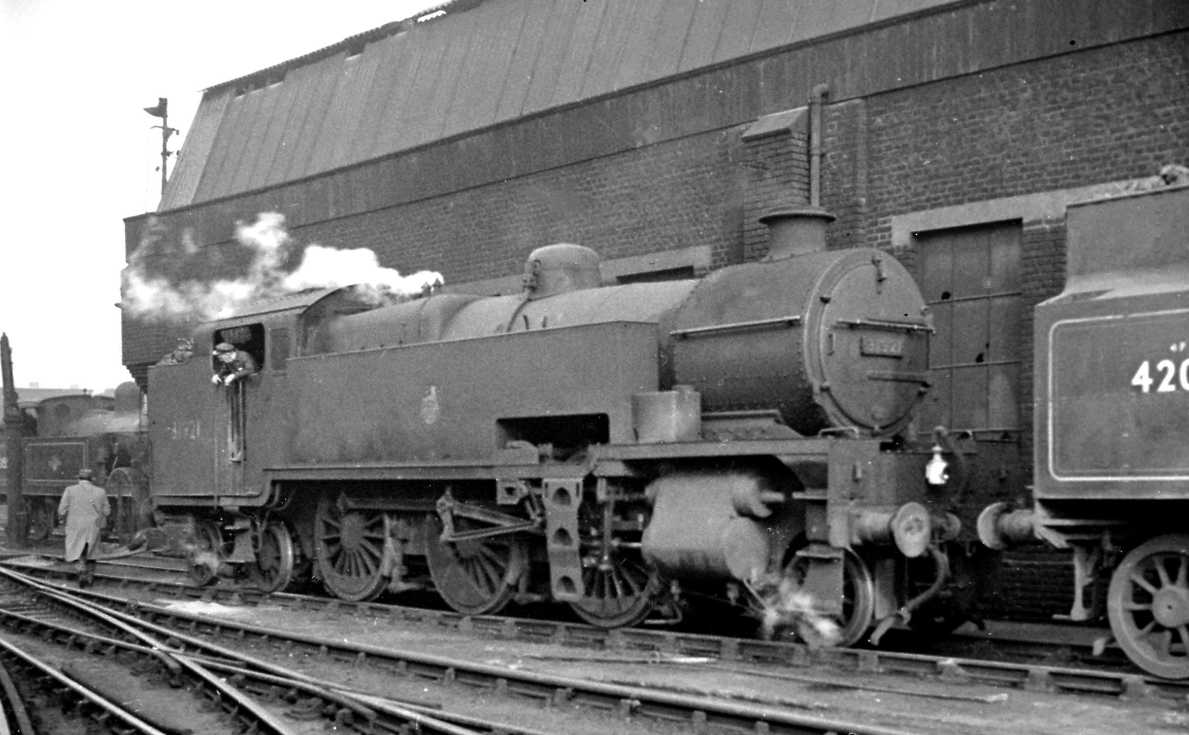 SR 2-6-4T at Stewarts Lane Locomotive Depot. SR Maunsell W class 2-6-4T No. 31921 (built 10/35, withdrawn 6/63) was one of a Class of 15 used almost exclusively on freight workings between London Yards.